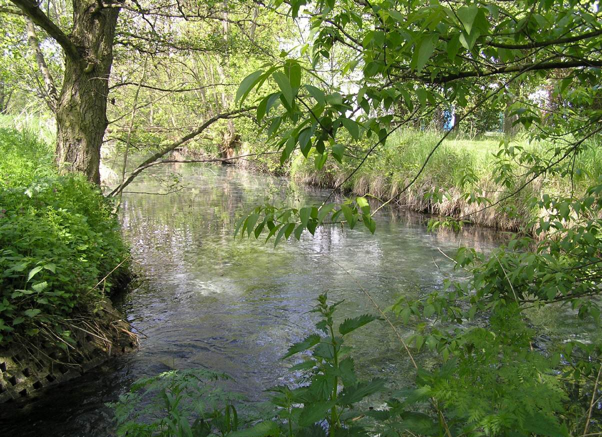 Die Wipper in SOllstedt